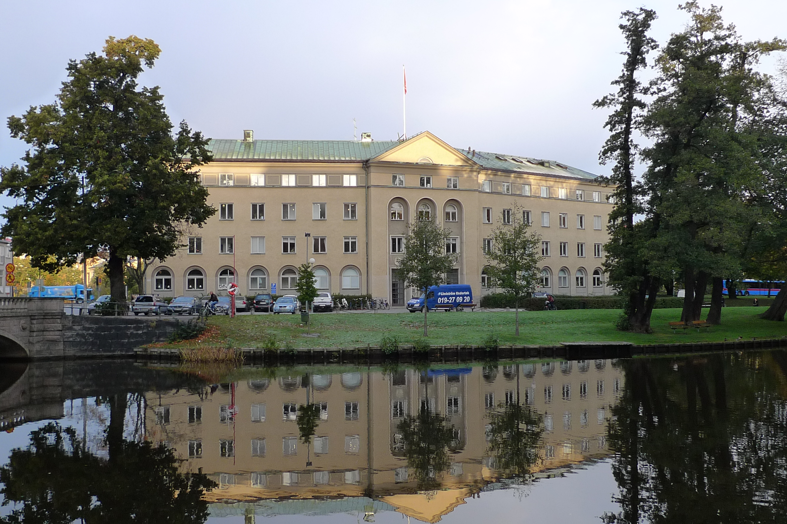 Nämndhuset in Örebro, Sweden